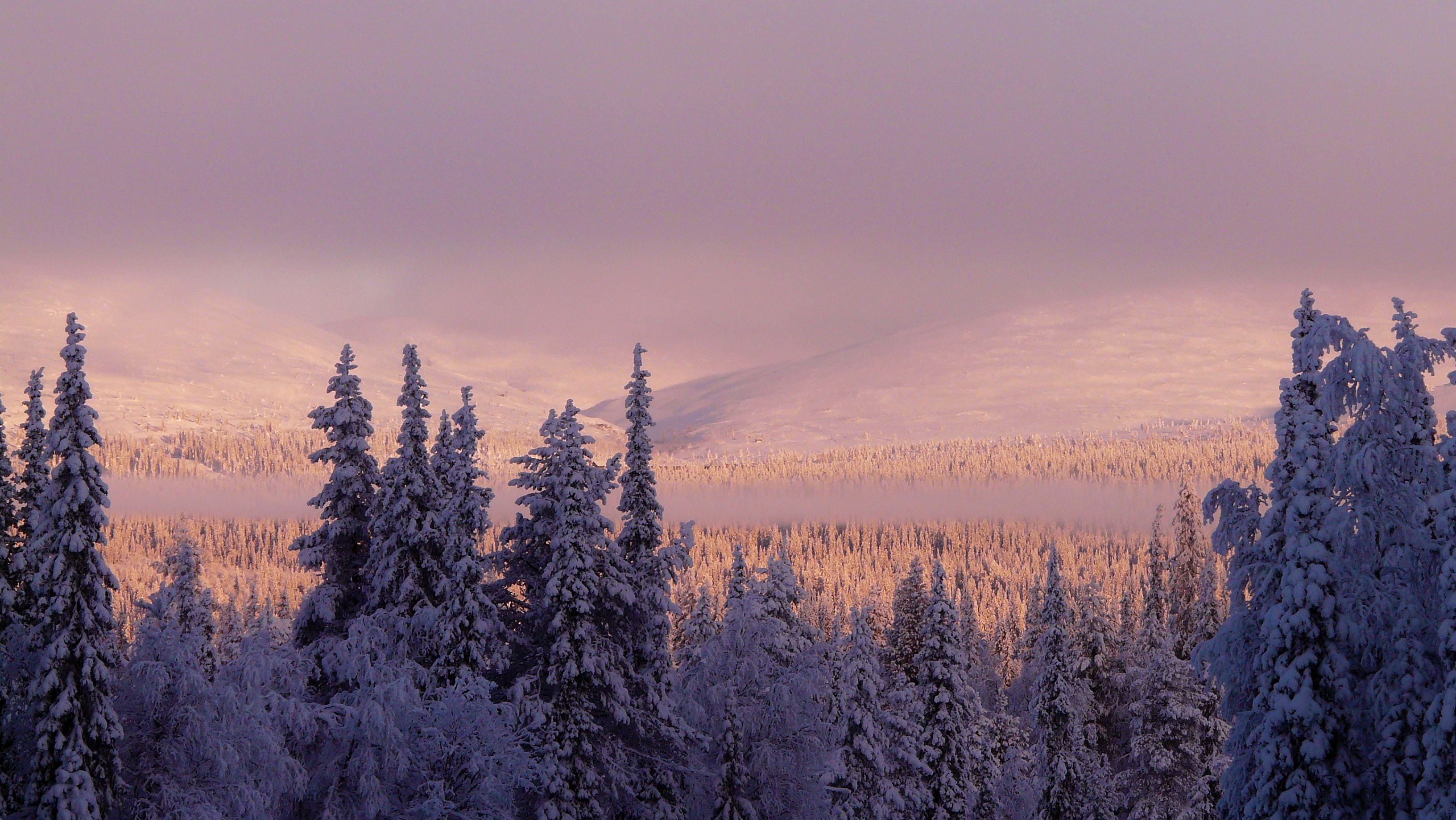 A view to Pallastunturi as seen from the intersection of Pallaksentie (national road 957) and Jerisjärventie (connecting road 9572) in 2009 February morning.